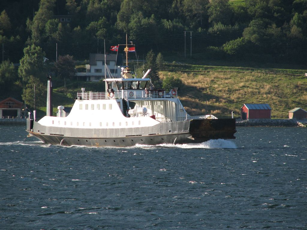 The local ferry M/F "Nørvøy" in Hjørundfjorden.